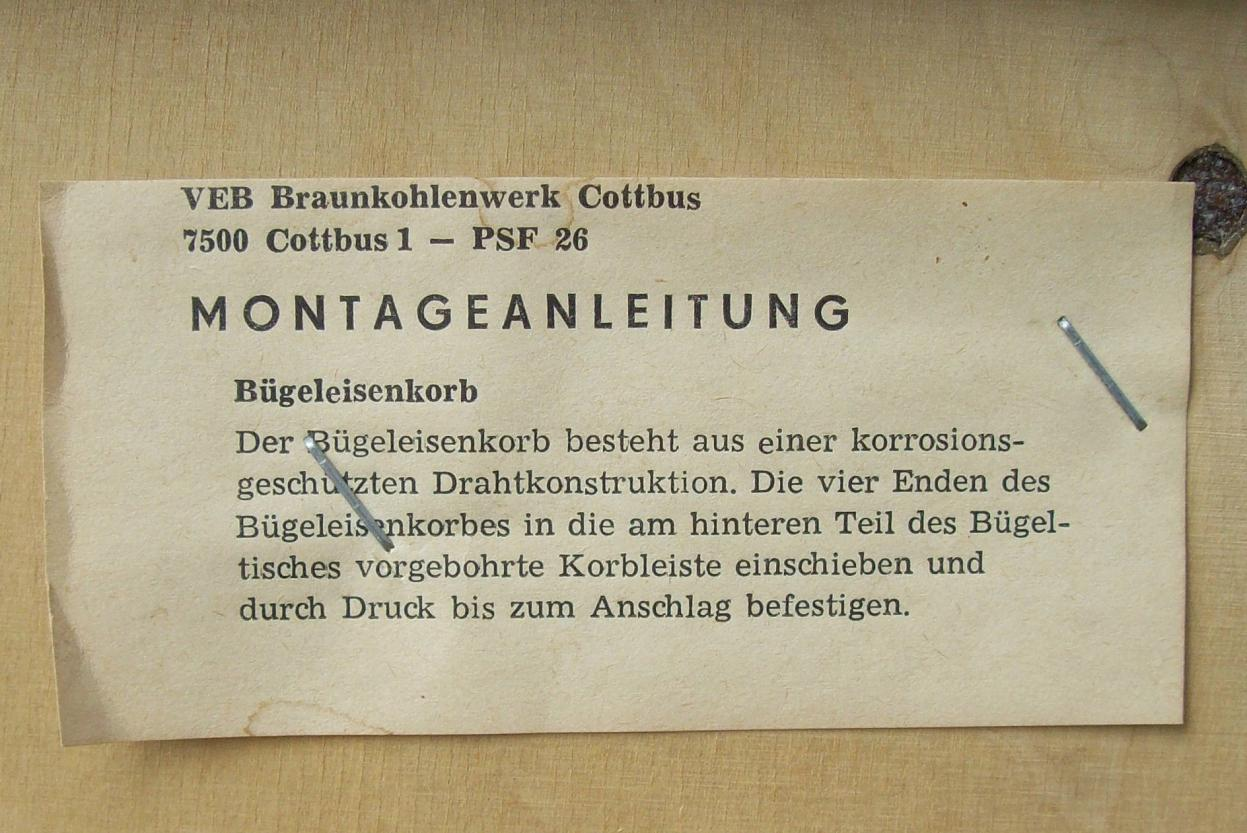 Type label from the GDR: example for the manufacturing of consumer goods in companies of the heavy industry